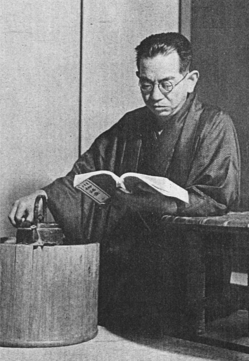 Photo of the screenwriter Kōgo Noda